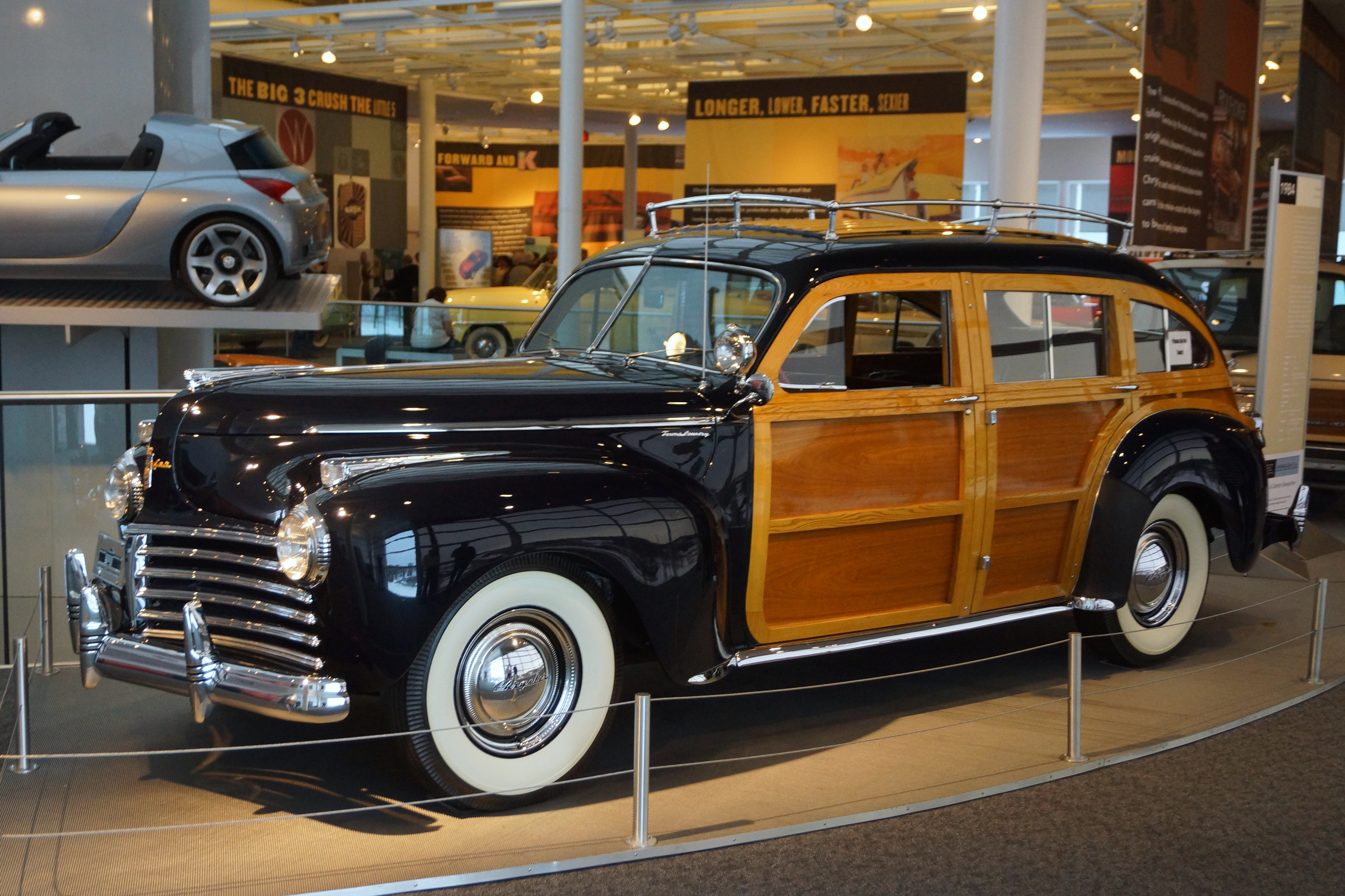 Click here for more car pictures at my Flickr site. Or here for my Car Crazy Tumblr site. Back on November 4th, Hemming's Blog posted an article about the closing of the Walter P. Chrysler Museum . I had missed a couple other opportunities with the WPC Club and others to get into the museum, after it had closed to the public. I did not want to regret missing this last chance to see all of the vehicles before being spread out to other facilities. I trekked from Western Minnesota to Eastern Michigan during Winter Storm Decima. I missed the worst parts of the storm, but still had to endure the aftermath winds, sub zero temperatures and a lake effect snow storm. The trip was difficult, but well worth it. I got to see several Chrysler Corporation concept and show cars that I had only seen pictures of before. There were several clever interactive displays demonstrating various innovations over the years. Since it was the last chance, I duplicated several shots using different camera settings to see what produced better results. I wish I had invested in a strobe light diffuser for all of those indoor pictures. I have not had much experience or success in the past with indoor car images.